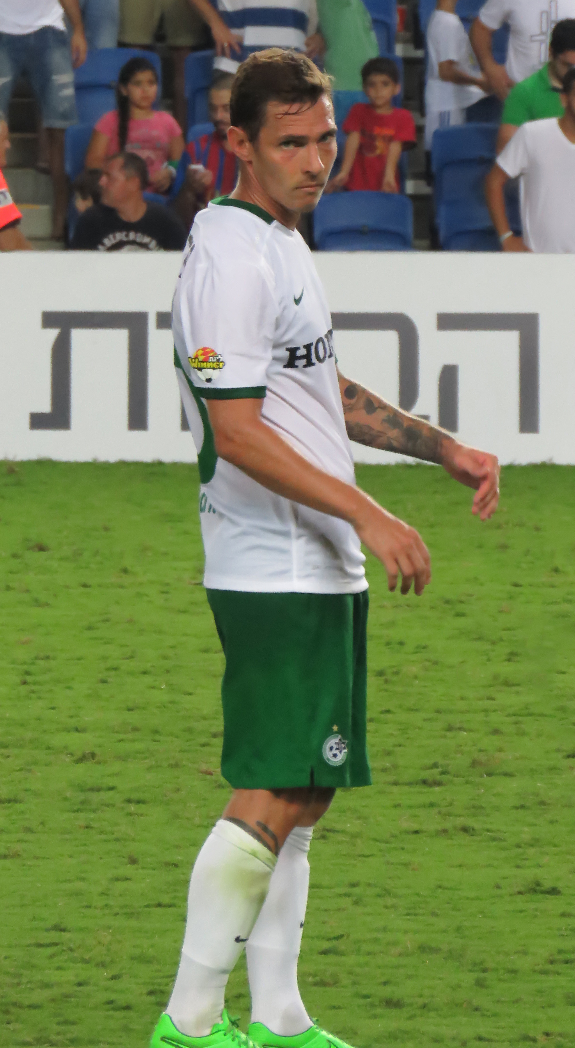 Hapoel Ra'anana vs. Maccabi Haifa F.C., 3 October, 2015